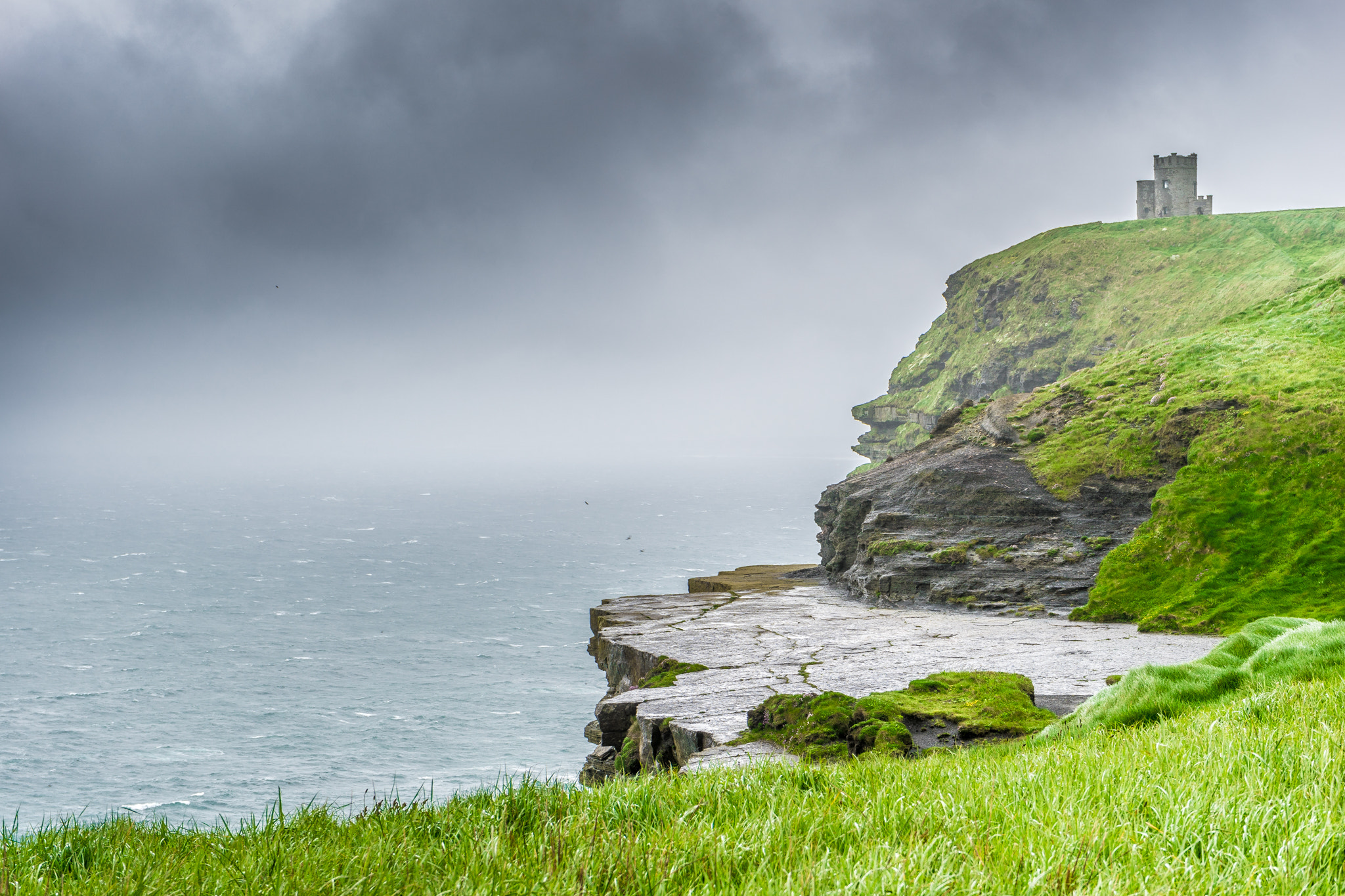 500px provided description: This is a free picture released under Creative Commons Attribution 2.0 Generic. Feel free to use and share this picture but please give me credit linking my website or my Flickr account. More info about me on [#sky ,#landscape ,#sea ,#travel ,#clouds ,#europe ,#tower ,#grass ,#history ,#sony ,#cliff ,#trip ,#cliffs ,#ireland ,#clare ,#by the sea ,#moher ,#cliff of moher ,#liscannor ,#sony a7 ,#sonya7 ,#sel2870]